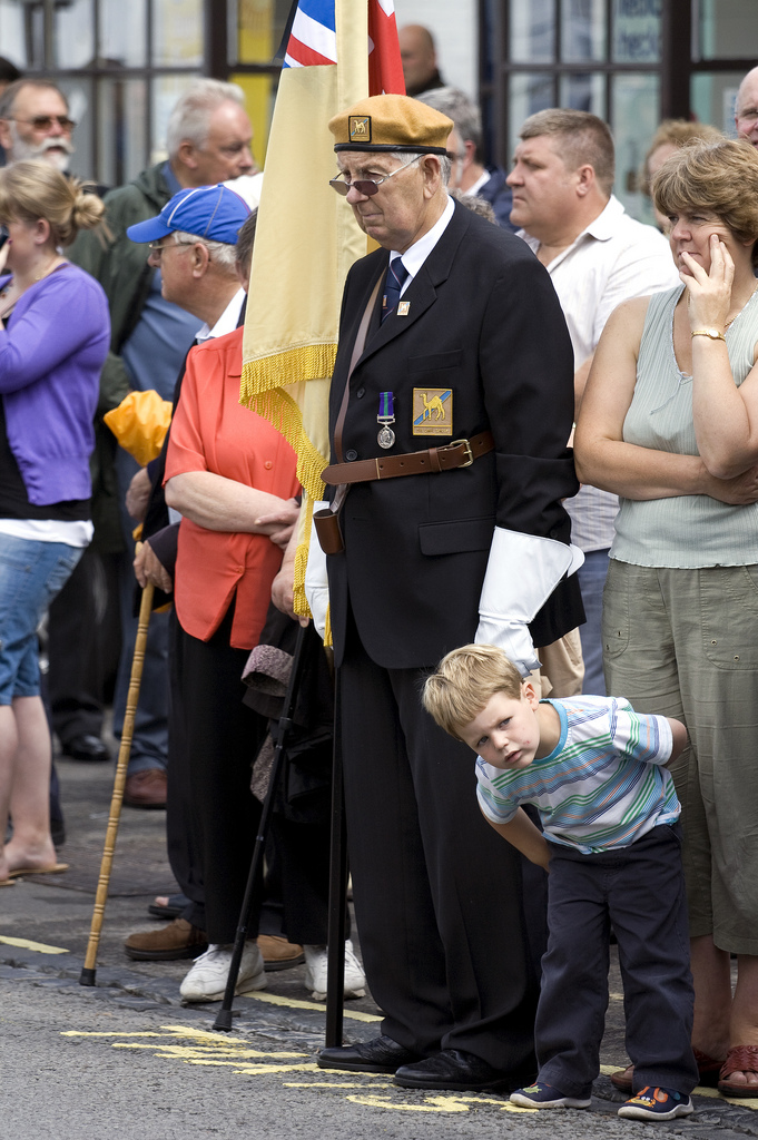 A veteran acts as flag bearer on the High Street of Wootton Bassett, Wiltshire, England, during a military repatriation ceremony.